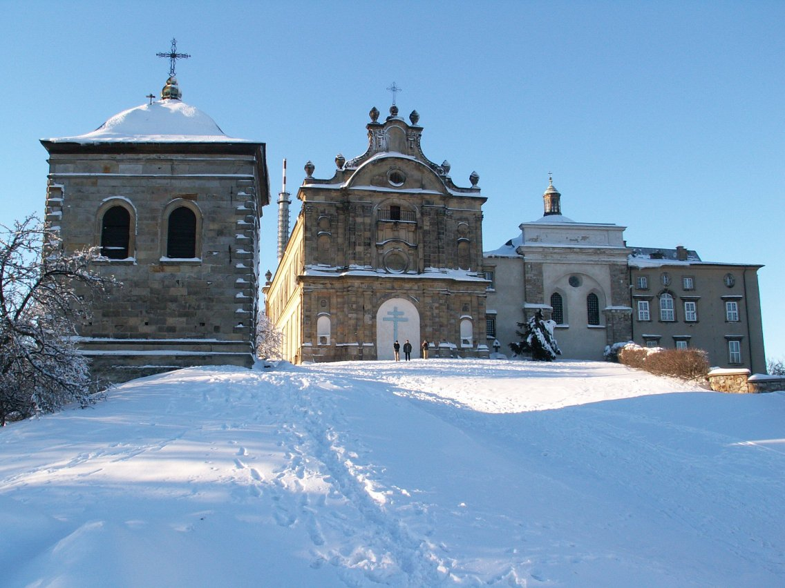 Benedictine Abbey on Święty Krzyż (Poland)